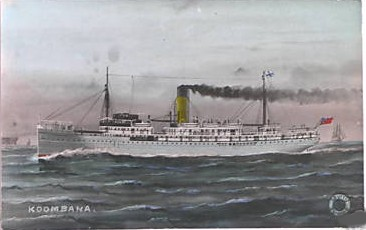 Postcard of the SS Koombana, launched in Glasgow in 1909, and lost off the coast of Western Australia in 1912.